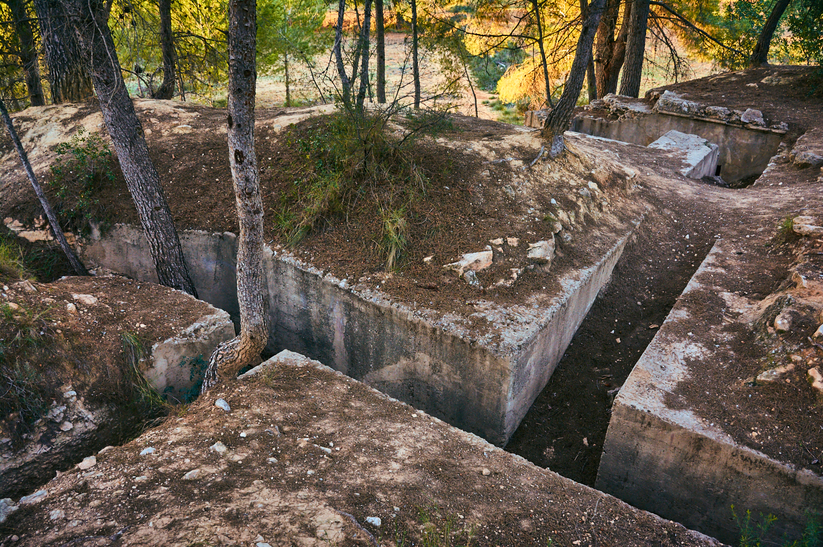 Photo by: ricardo abad puig